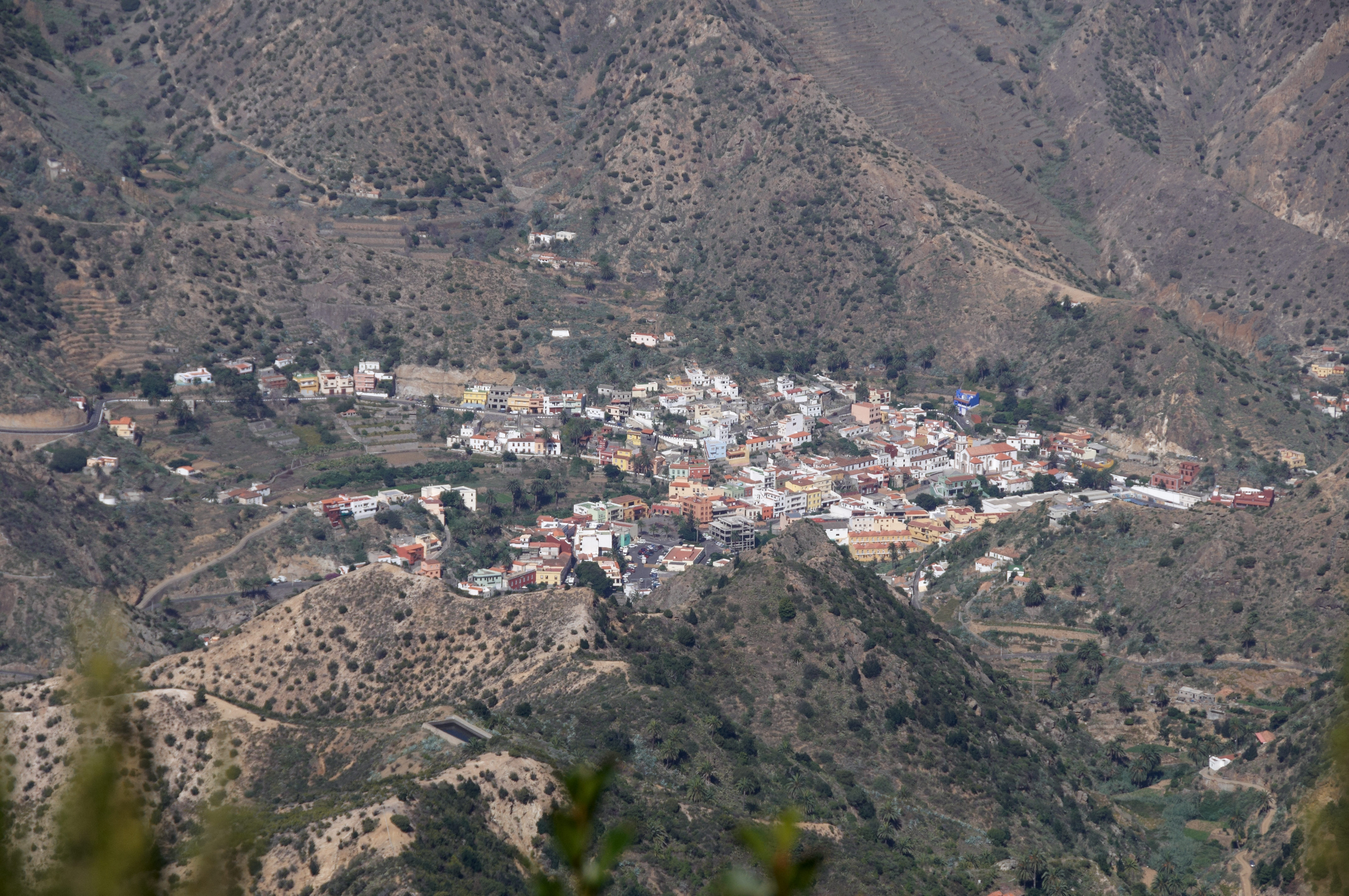 View on Vallehermoso, La Gomera, Spain